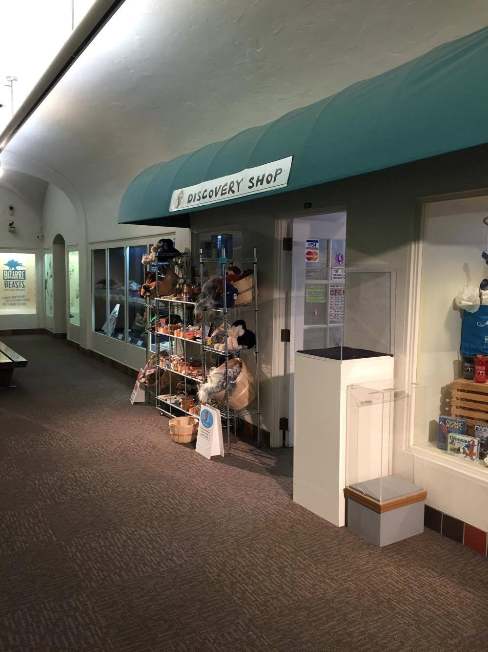 part of the University of Nebraska State Museum